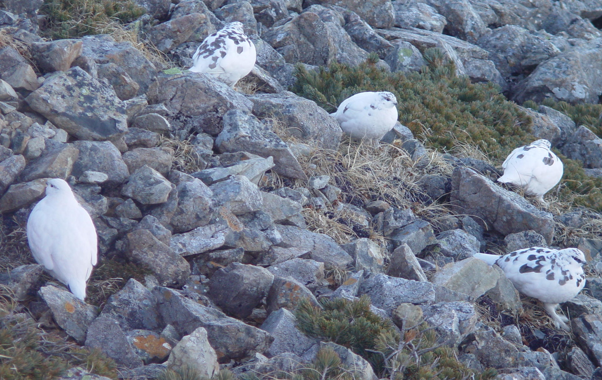 Rock Ptarmigan(Lagopus muta japonica, Lagopus mutus japonicus), family in Mount Kamikōchi, Japan.